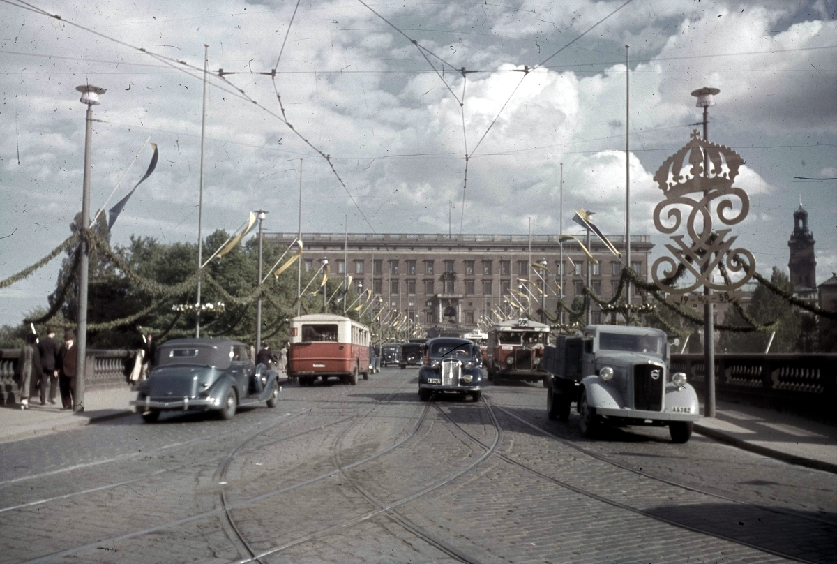 Norrbro ("North Bridge") in Stockholm in 1938. This Agfacolor photo was not colorized.